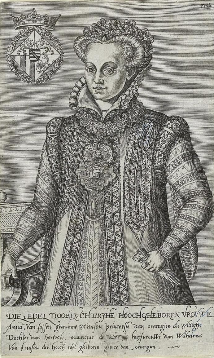 Anna of Saxony (1544-1577) She was 2nd wife of William the Silent (Duke of Orange).